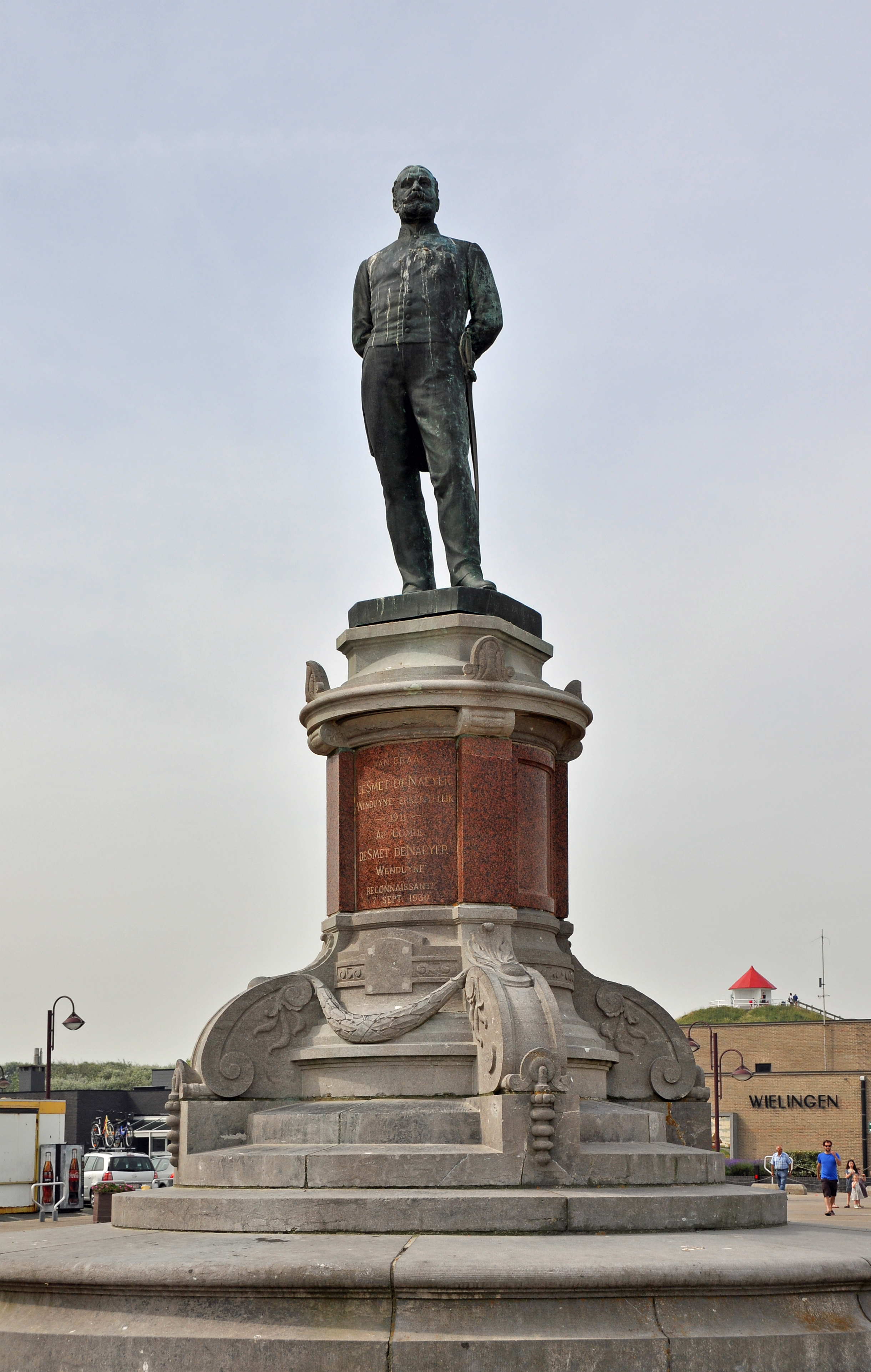 Wenduine (De Haan, Belgium): statue of the Belgian politician Paul de Smet de Naeyer